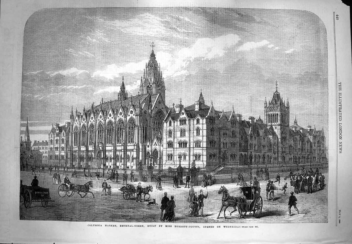 The Illustrated London News, 1869, p. 440